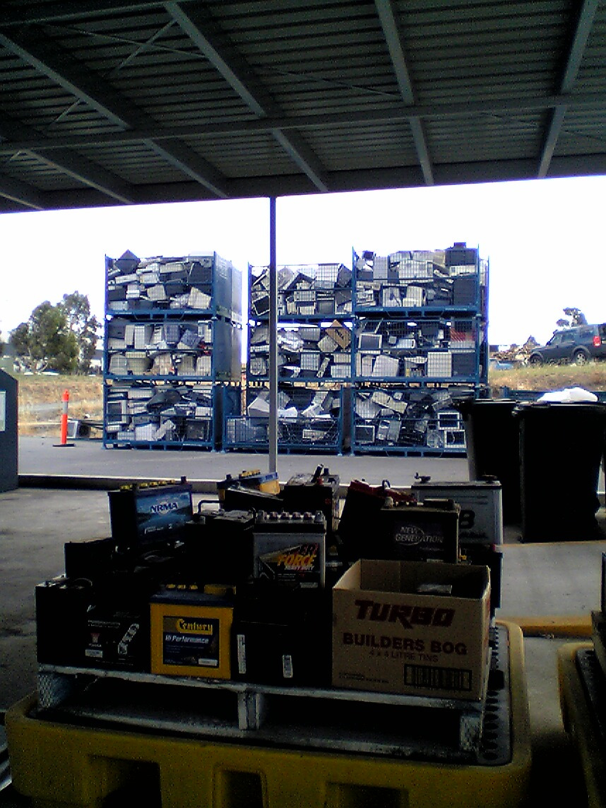 Computers for recycling in steel mesh pallets at the Mitchell Resource Management Centre in Canberra. Photo by Tom Worthington, January 2013.